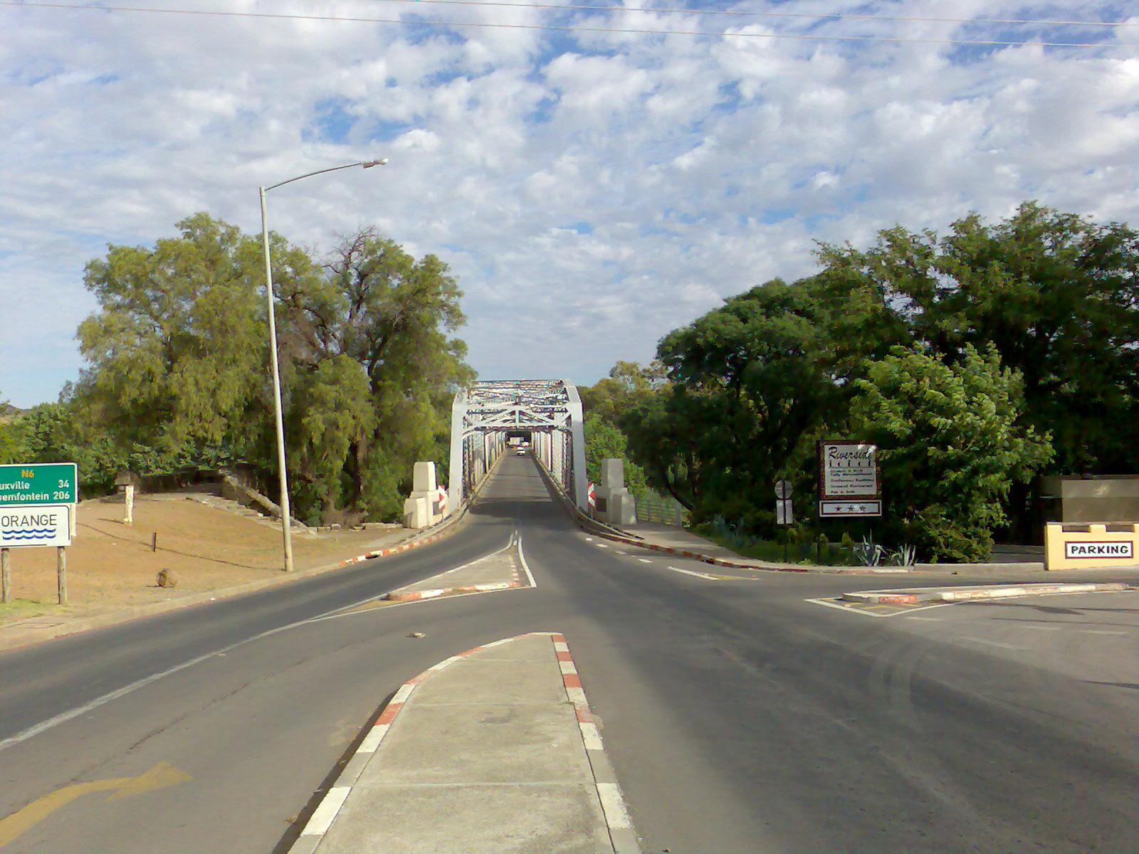 Author: Gregorydavid 18:37, 29 December 2006 (UTC)